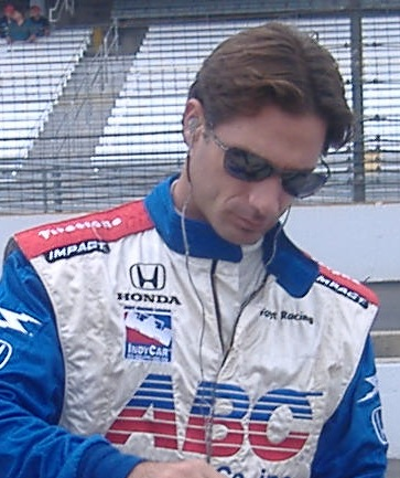 Felipe Giaffone at the Indianapolis Motor Speedway for Miller Lite Carb Day for the 2006 Indianapolis 500.